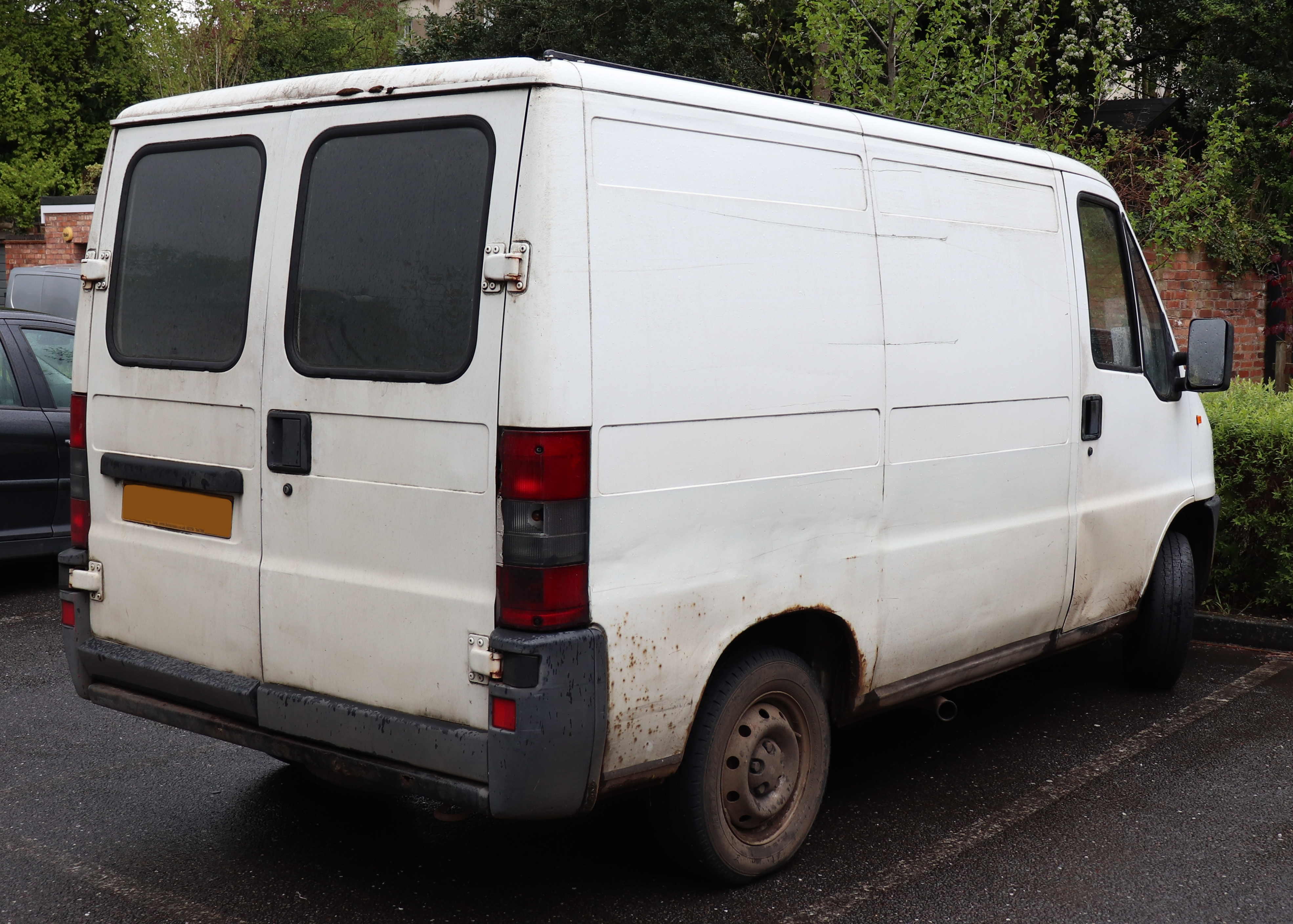 1999 Citroen Relay 1000 Diesel MWB 1.9 Taken in Leamington Spa